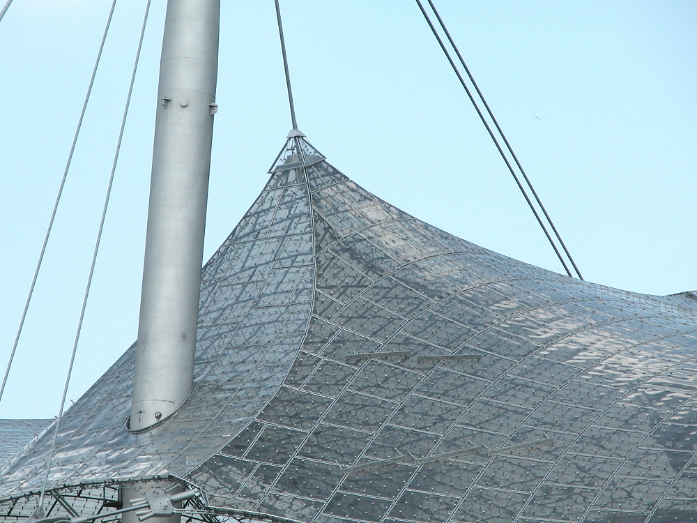 Olympic Stadium (Munich), Germany